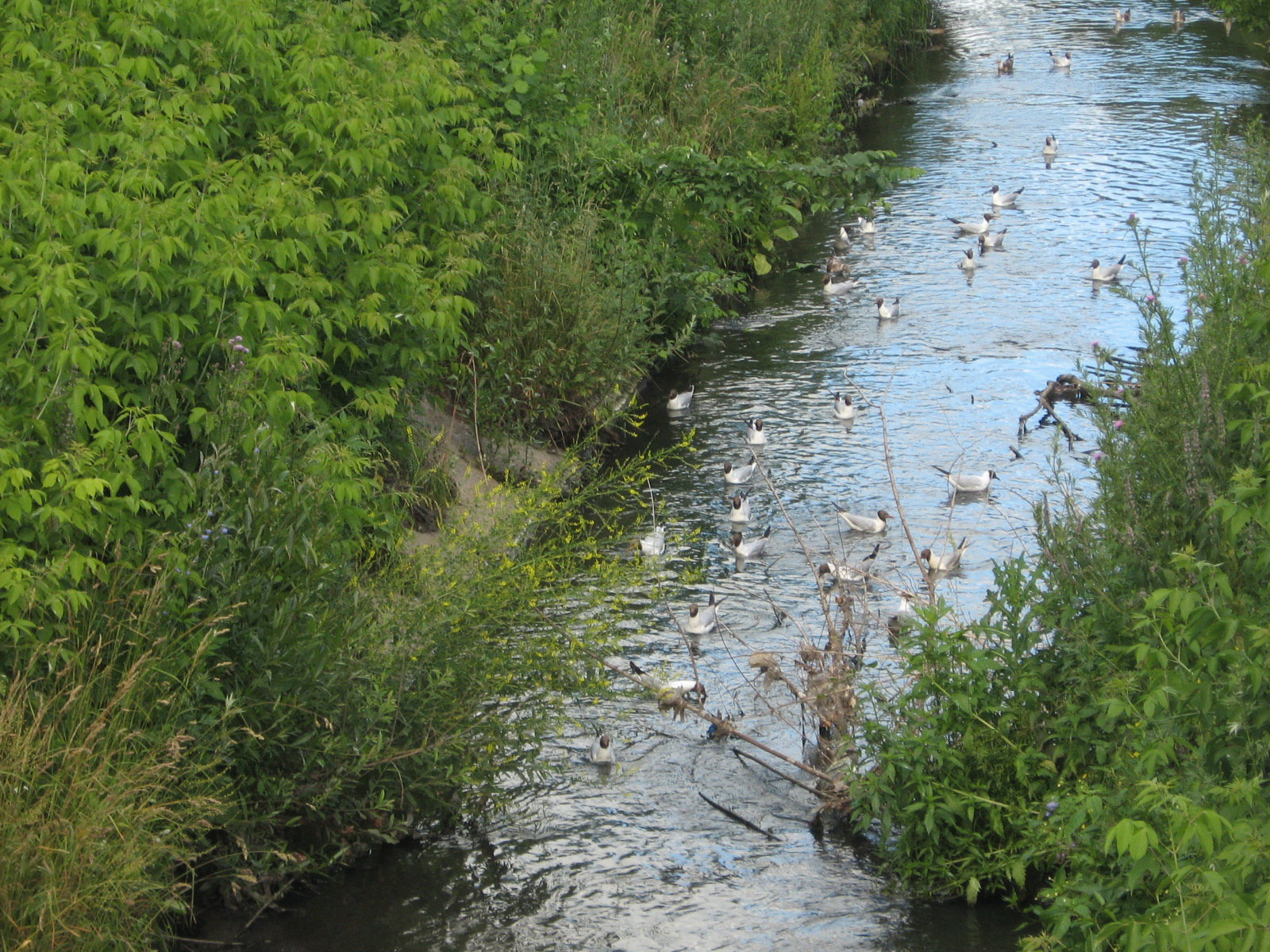 Lybed River near Ryazan Kremlin